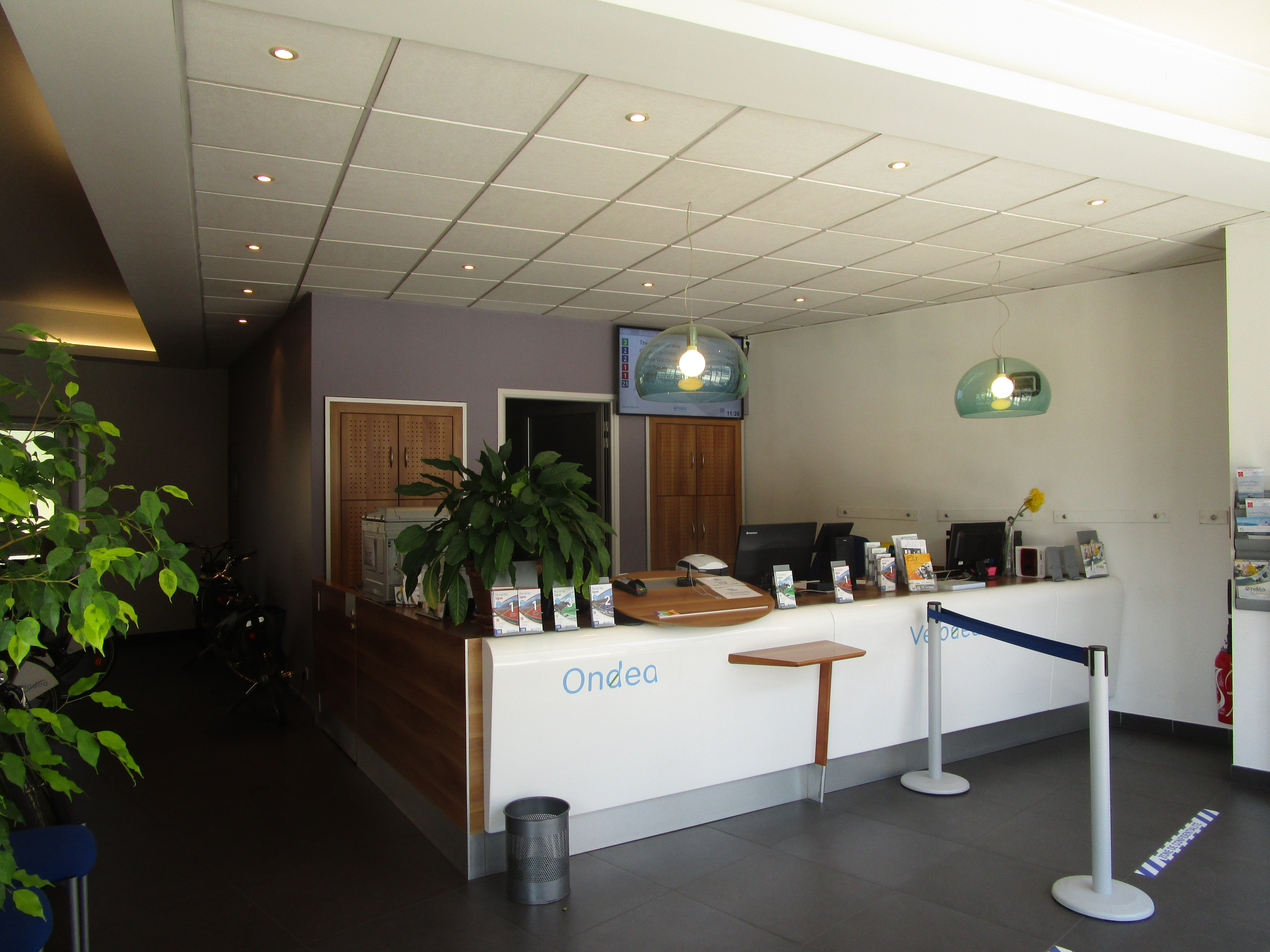 The interior of the Espace Ondéa (sales agency of Ondéa) — in Aix-les-Bains, France — on May 30, 2017.